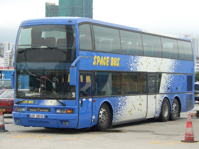 Ikarus-bodied Scania K124EB double decker in Hong Kong.